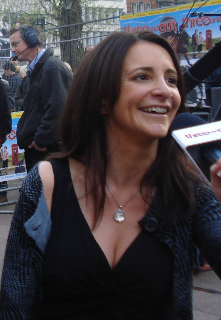 Lucy Porter at the Premier of Three and Out 2008